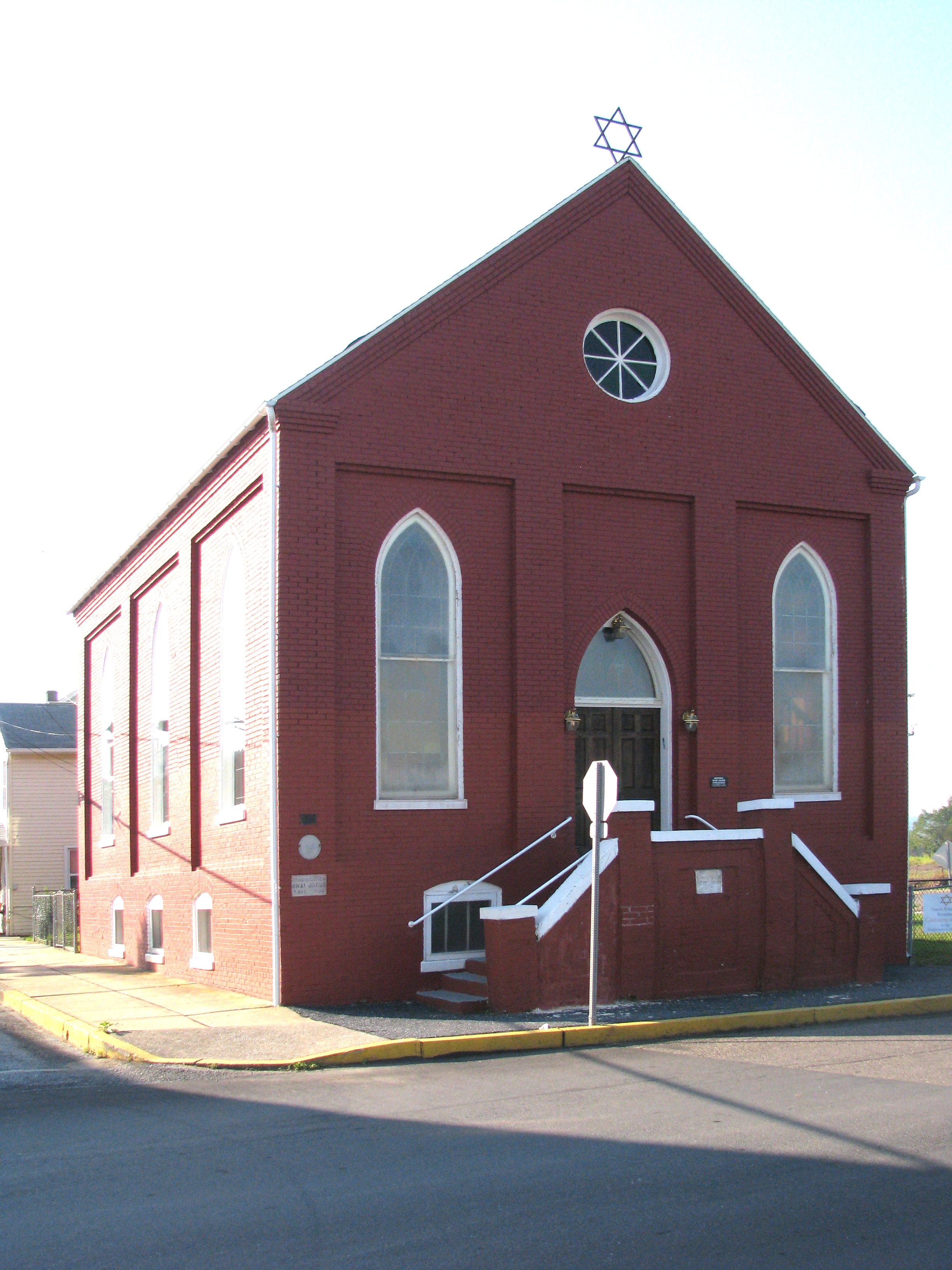 B'Nai Jacob Synagogue is a relatively small building located on the edge of a residential neighborhood of Middletown, PA. People have lived in that part of town for over 100 years.